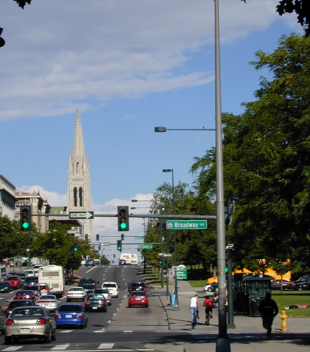 This is a picture taken at the intersection of Broadway and Colfax Avenue, looking east. The Roman Catholic cathedral on the left is a well-known "navigation" landmark marking the fringe of the Civic Center sub-area of Downtown Denver.